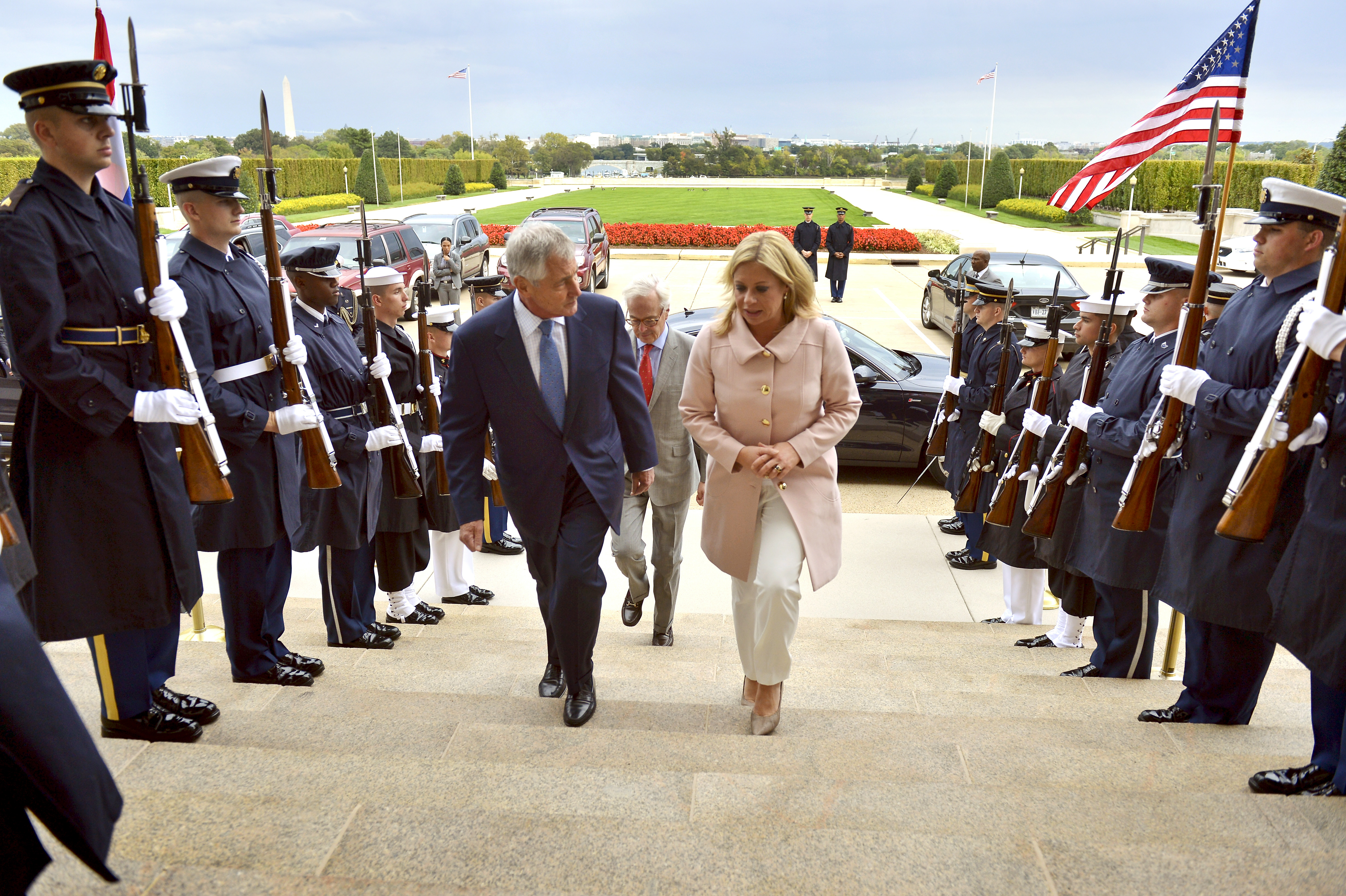 U.S. Defense Secretary Chuck Hagel hosts an honor cordon to welcome Dutch Defense Minister Jeanine Hennis-Plasschaert to the Pentagon, Oct. 7, 2014.The two leaders met to discuss issues of mutual importance.